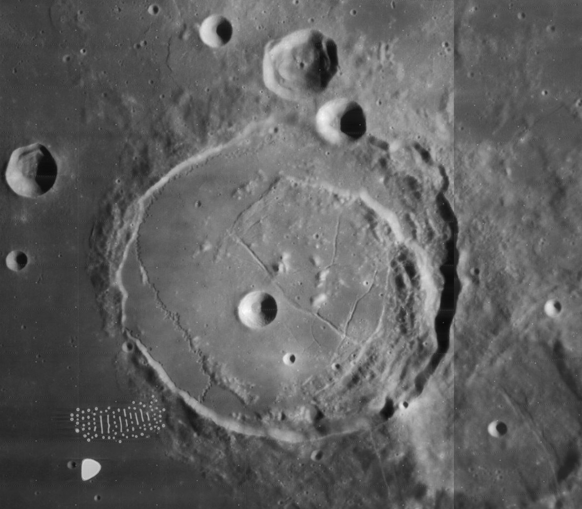 Posidonius, on the moon.